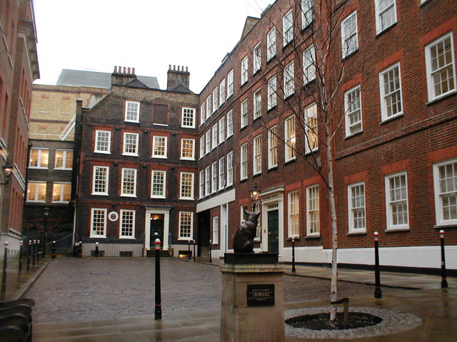 Gough Square & Dr Johnson's house